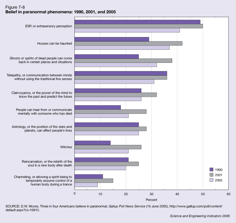 Belief in the paranormal in the United States